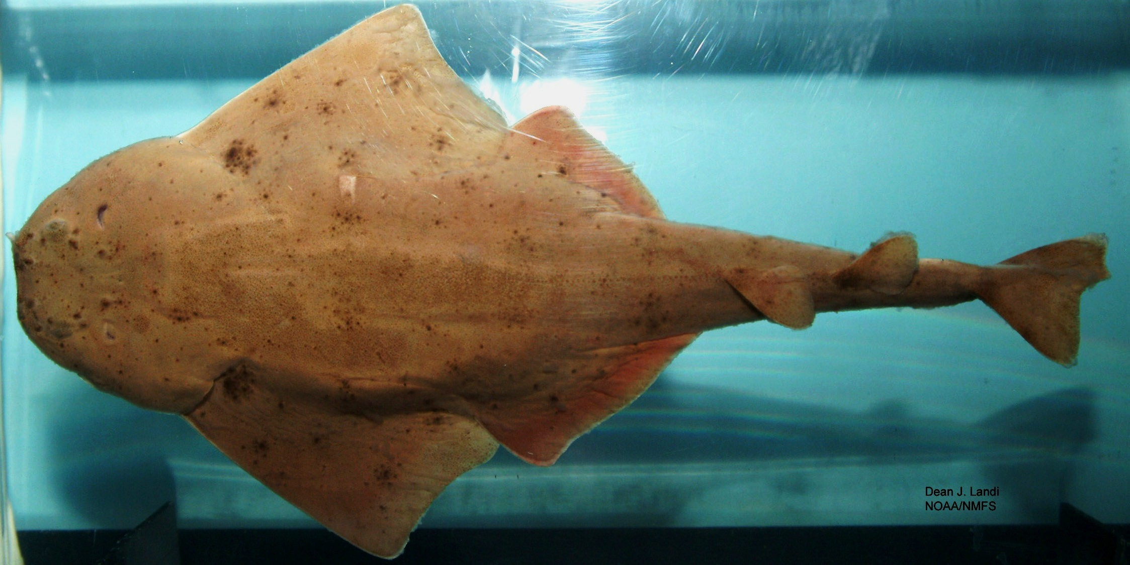 Sand devil (Squatina dumeril) from Gulf of Mexico